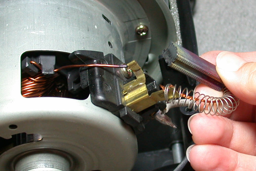 The brushes on an electric motor taken out of a vacuum cleaner.